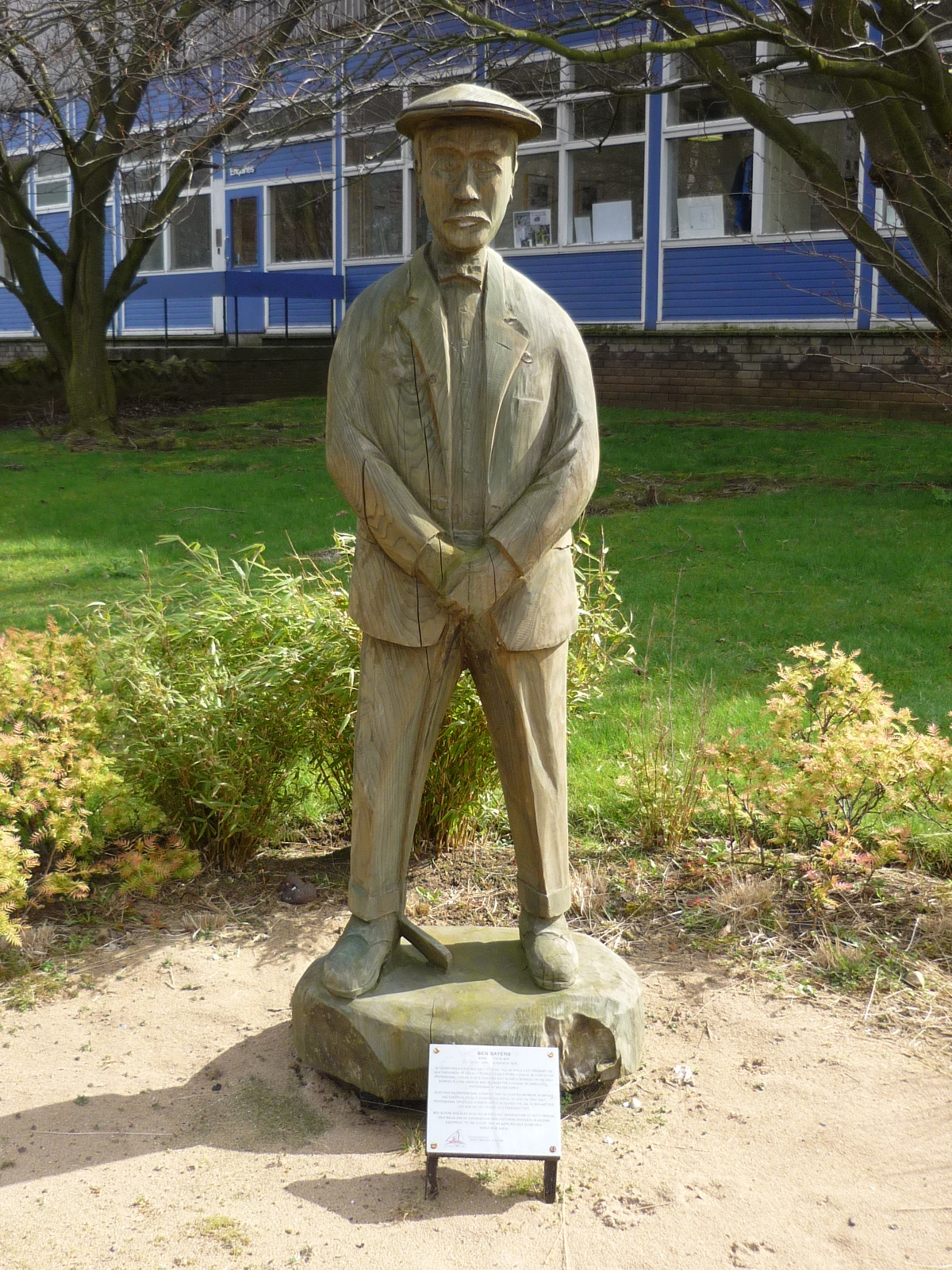 Photograph of statue of Ben Sayers, North Berwick